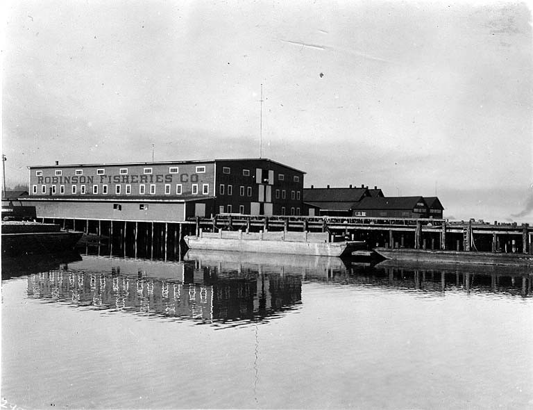 From John Cobb field notebook: Codfish plant of Robinson Fisheries Co. Anacortes, Wn., Apr. 22, 1910 Subjects (LCTGM): Canneries--Washington (State)--Anacortes Subjects (LCSH): Cod fisheries--Washington (State)--Anacortes; Robinson Fisheries Company